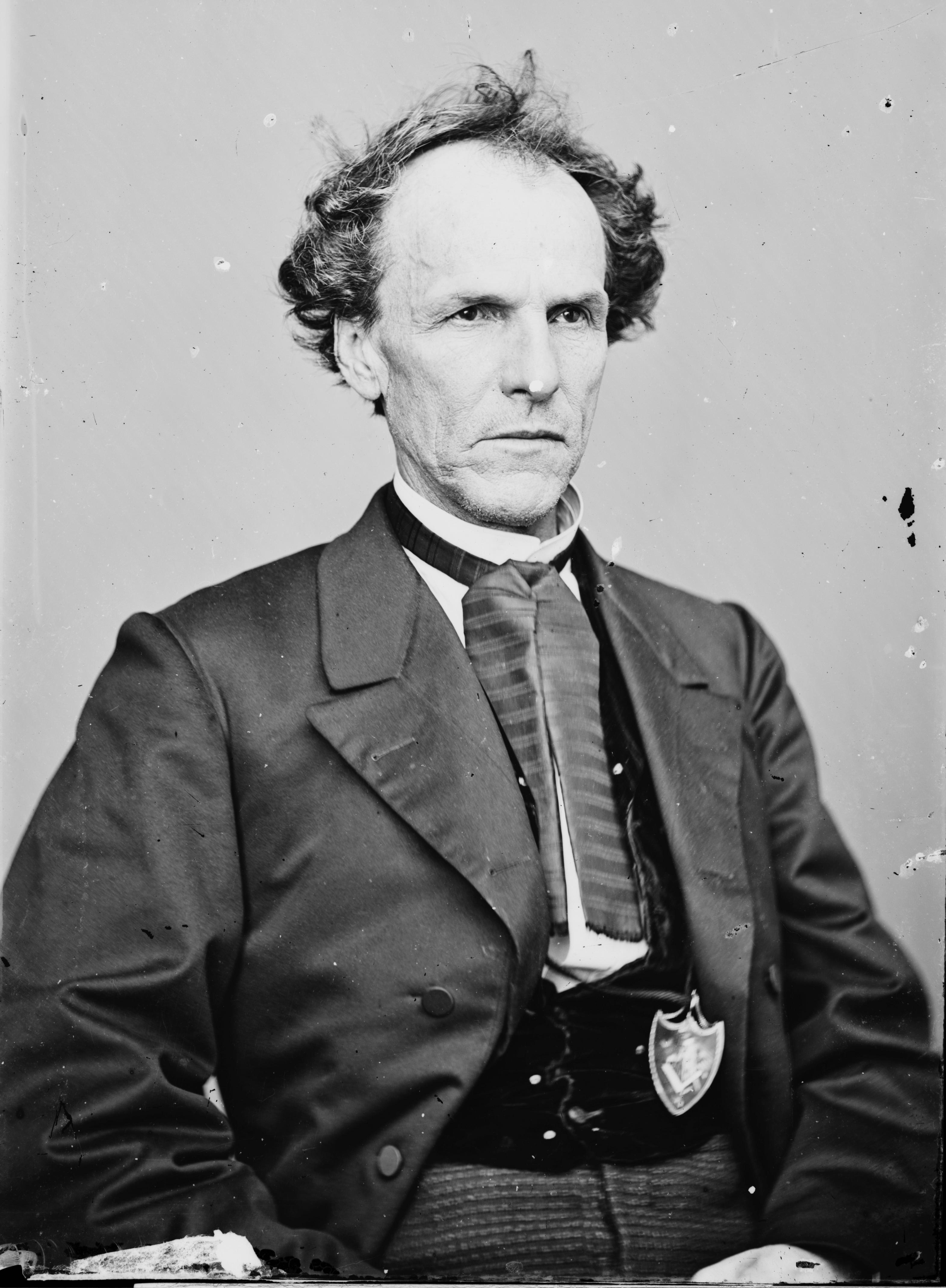 James H. Lane (Senator). Library of Congress description: "James Lane".